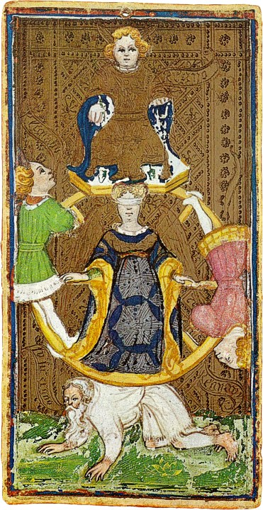 The Fortune card from the Visconti-Sforza Tarot deck.